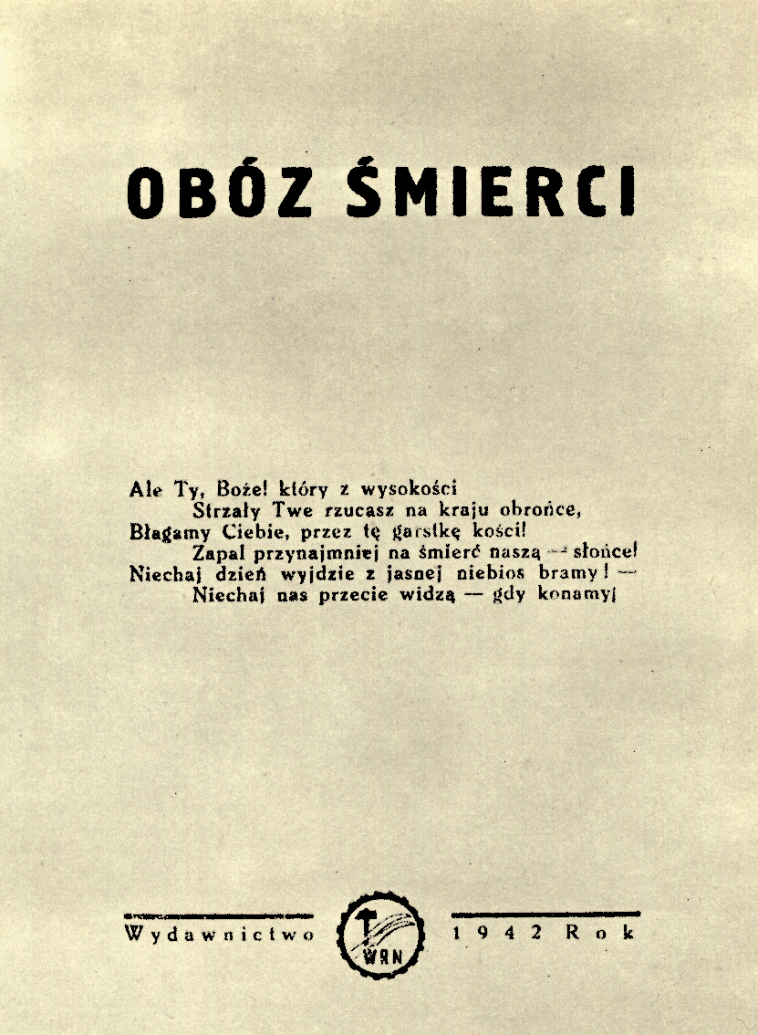 Front page (Death Camp) of a Polish conspiratorial reportage about Auschwitz death camp built by German Nazis in Poland. This reportage was written by Natalia Zarembina and issued by Polish Underground State.